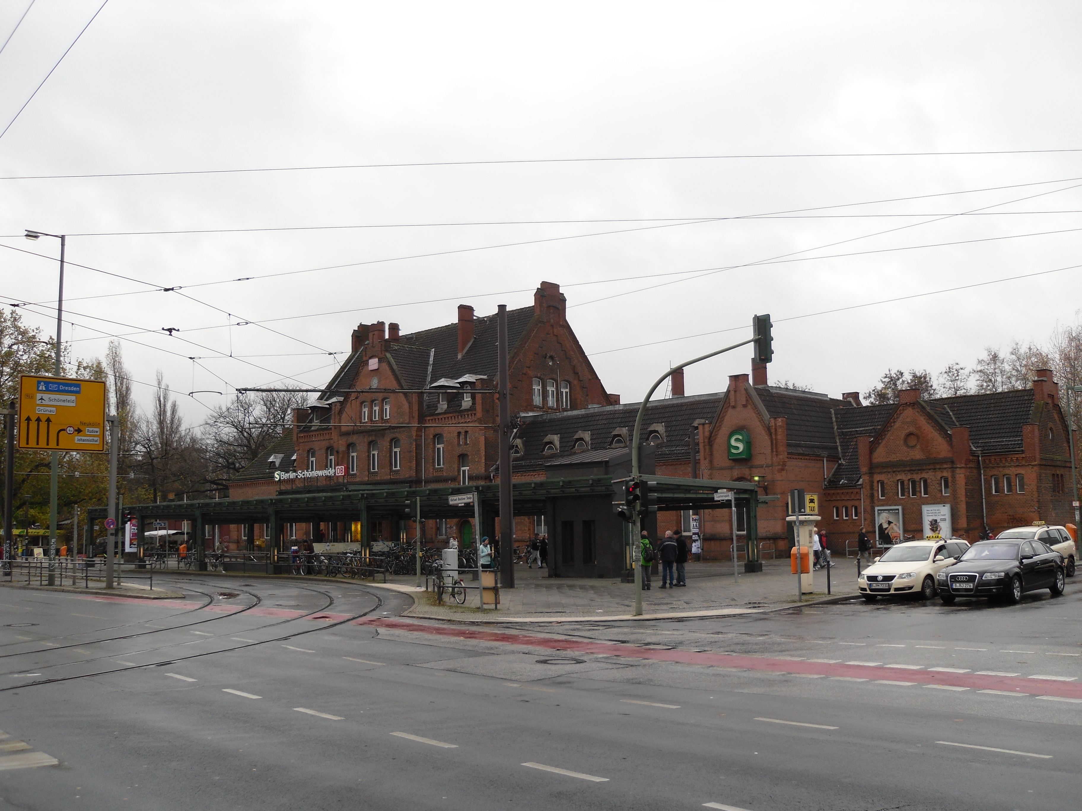 Passenger terminal of Shoneweide station